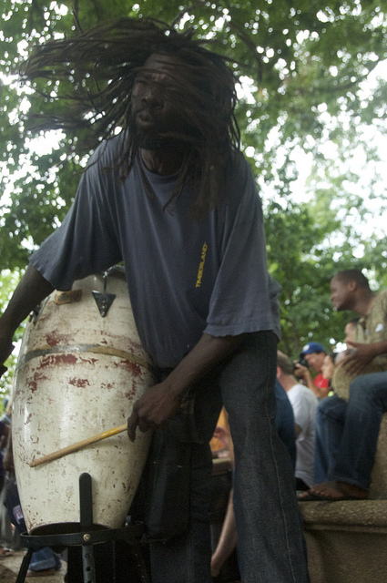 A man plays the drums at Meridian Hill Park drum circle.